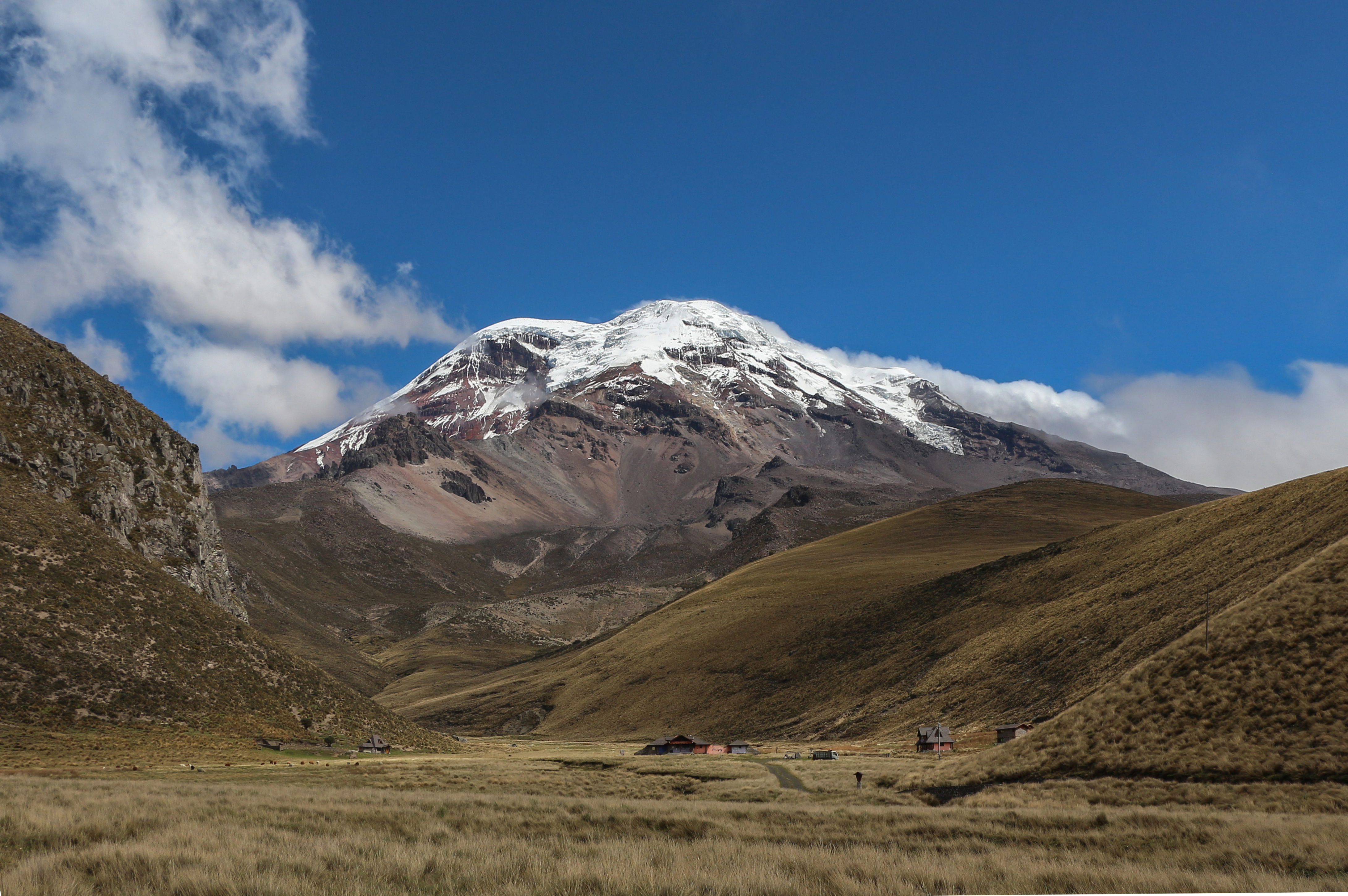 Volcano Chimborazo (6268m), Ecuador